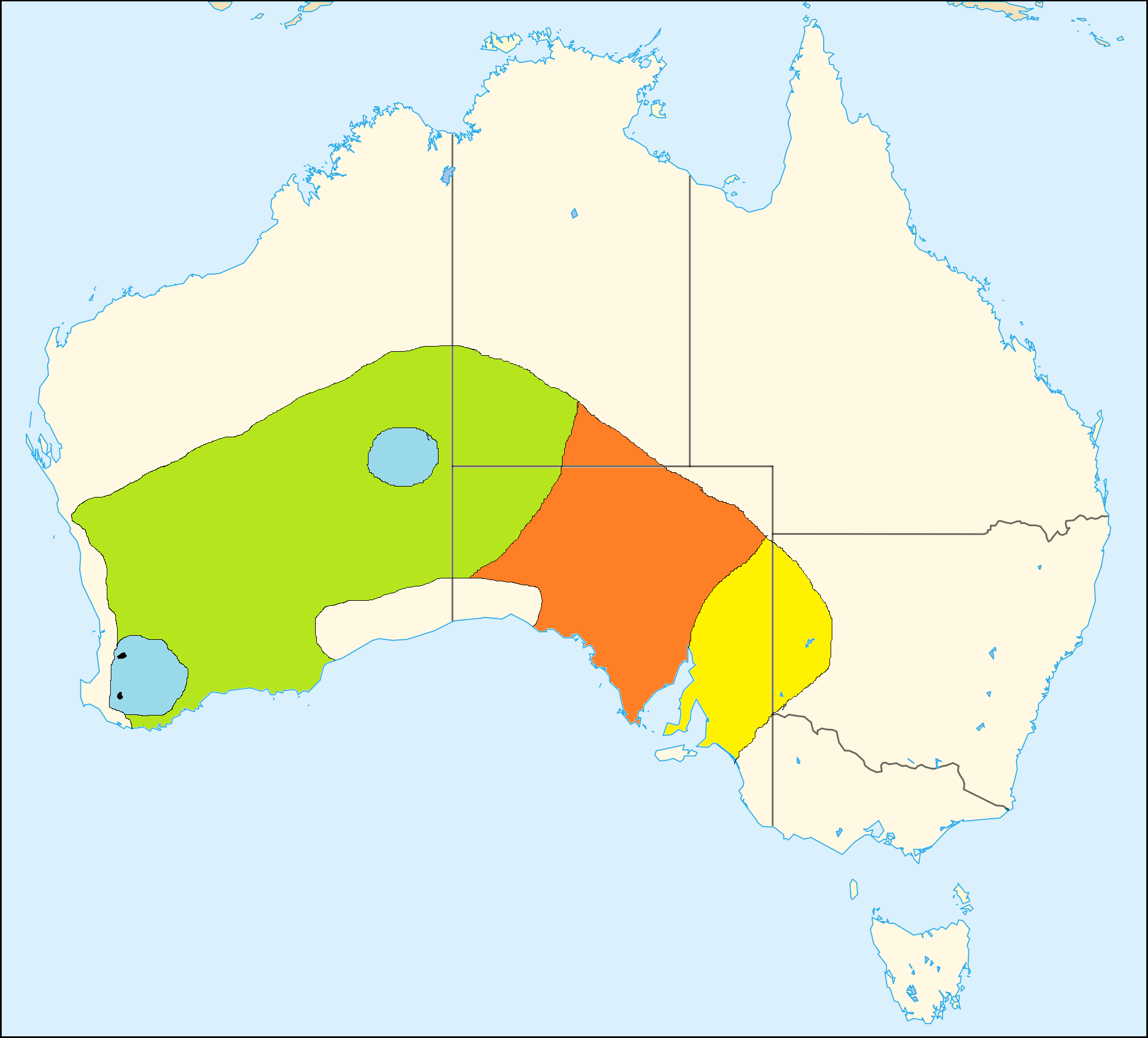 Historical range map of the numbat (Myrmecobius fasciatus) yellow: became extinct between 1800 and 1910 orange: became extinct between 1910 and 1930 green: became extinct between 1930 and 1960 blue: became extinct between 1960 and 1980 black: remaining range in 1980 map based on: L. Fumagalli, C. Moritz, P. Taberlet & J. A. Friend: Mitochondrial DNA sequence variation within the remnant populations of the endangered numbat (Marsupialia: Myrmecobiidae: Myrmecobius fasciatus). In: Molecular Ecology 1999, no. 8, p. 1545-1549